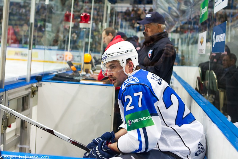 KHL game Amur Khabarovsk vs. HC Neftekhimik Nizhnekamsk on September 26, 2011. HC Neftekhimik defenceman Alexander Sazonov in the box serving a minor penalty.